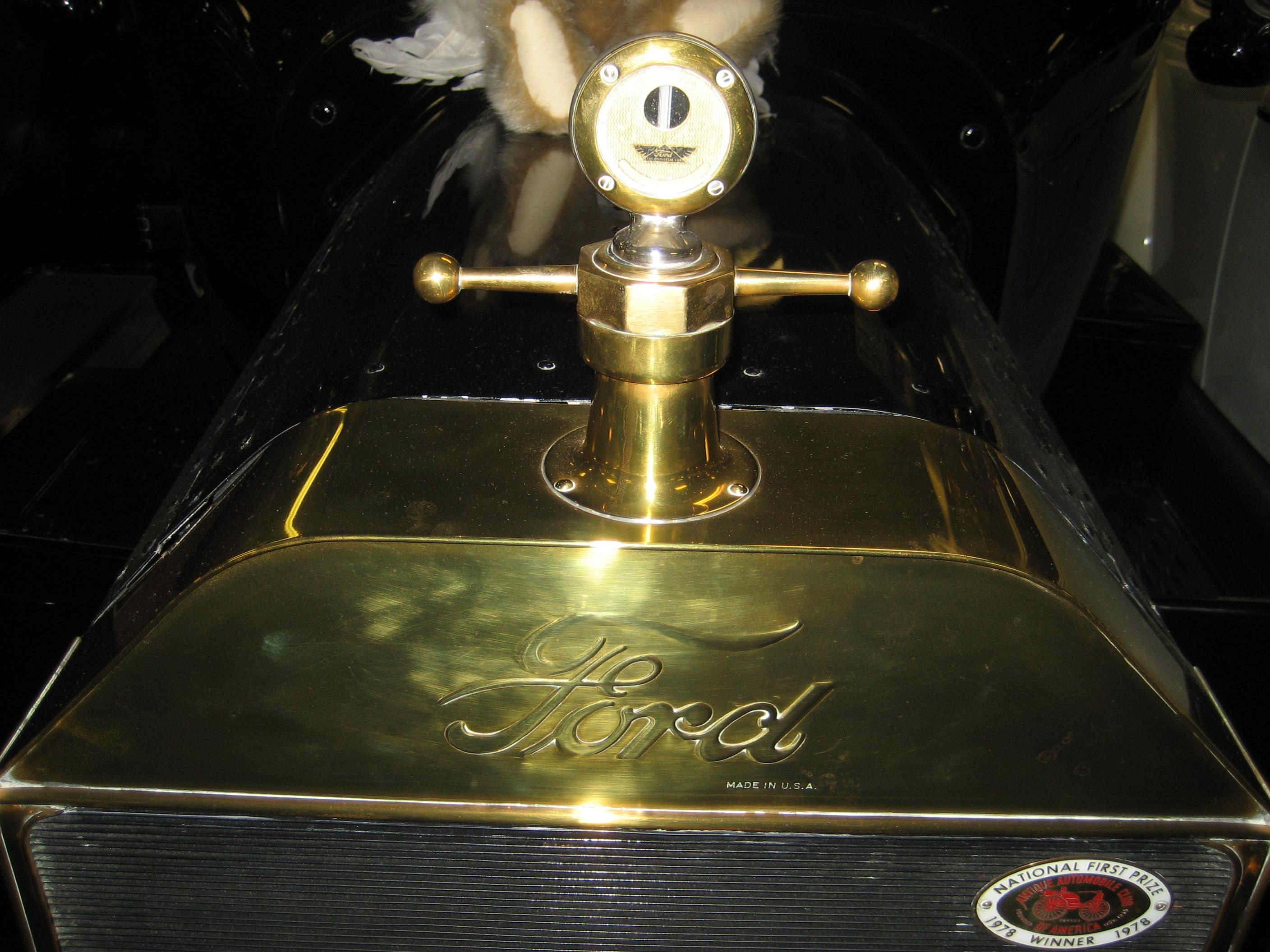 1916 Ford Model T Runabout with brass trim and dealer-installed Boyce MotoMeter motor thermometer with handles on display at Tallahassee Automobile Museum. Detail showing radiator cap. (Though dated to 1916, this Model T seems to be a 1915-style vehicle. Its headlamps have brass rims, which had been eliminated by 1916.)